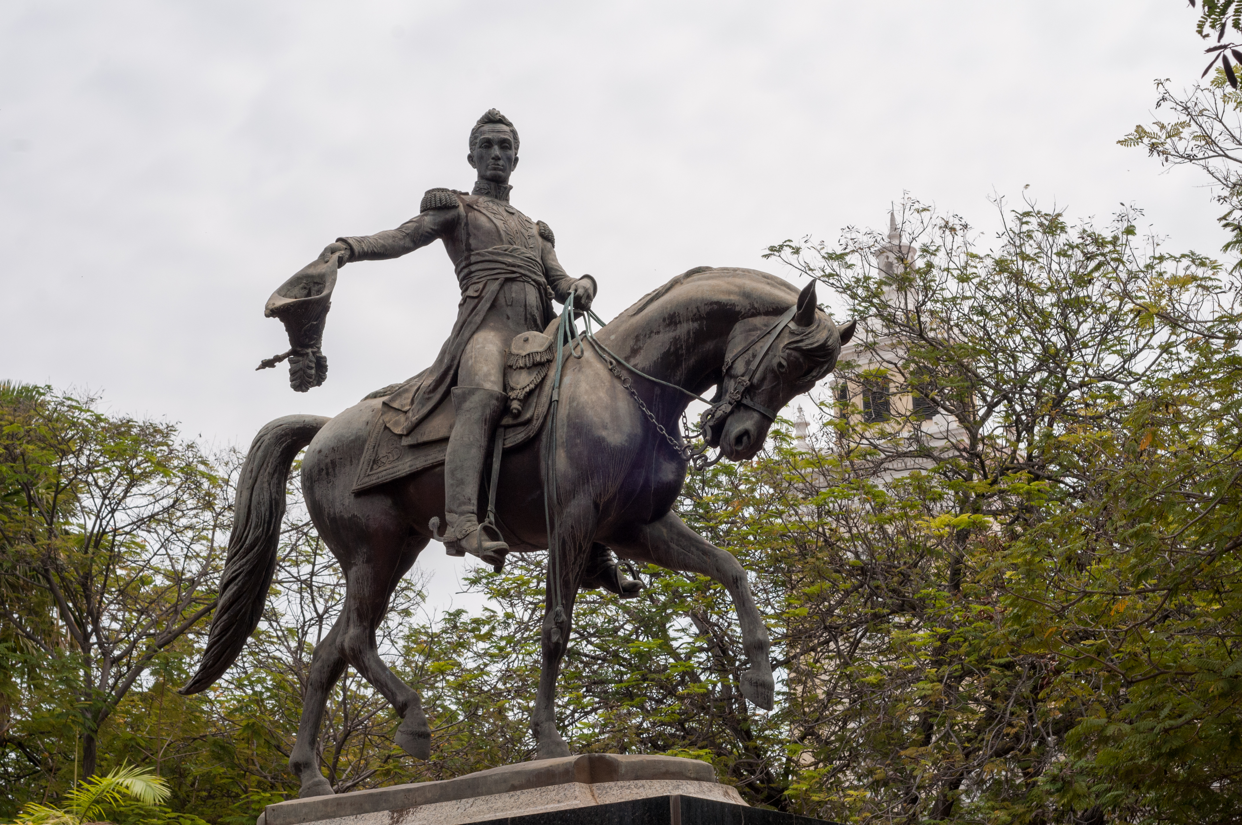 Simón Bolívar in Maracaibo square